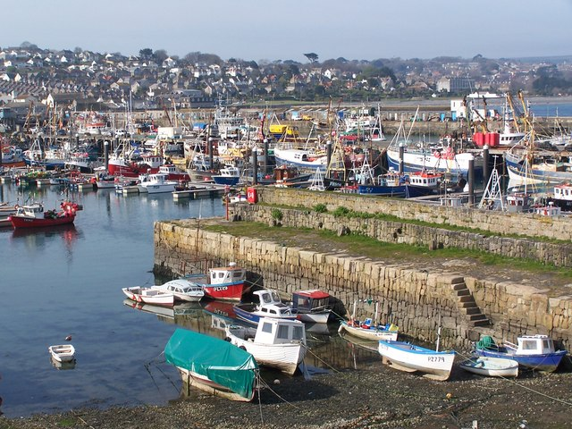 View across Newlyn Harbour